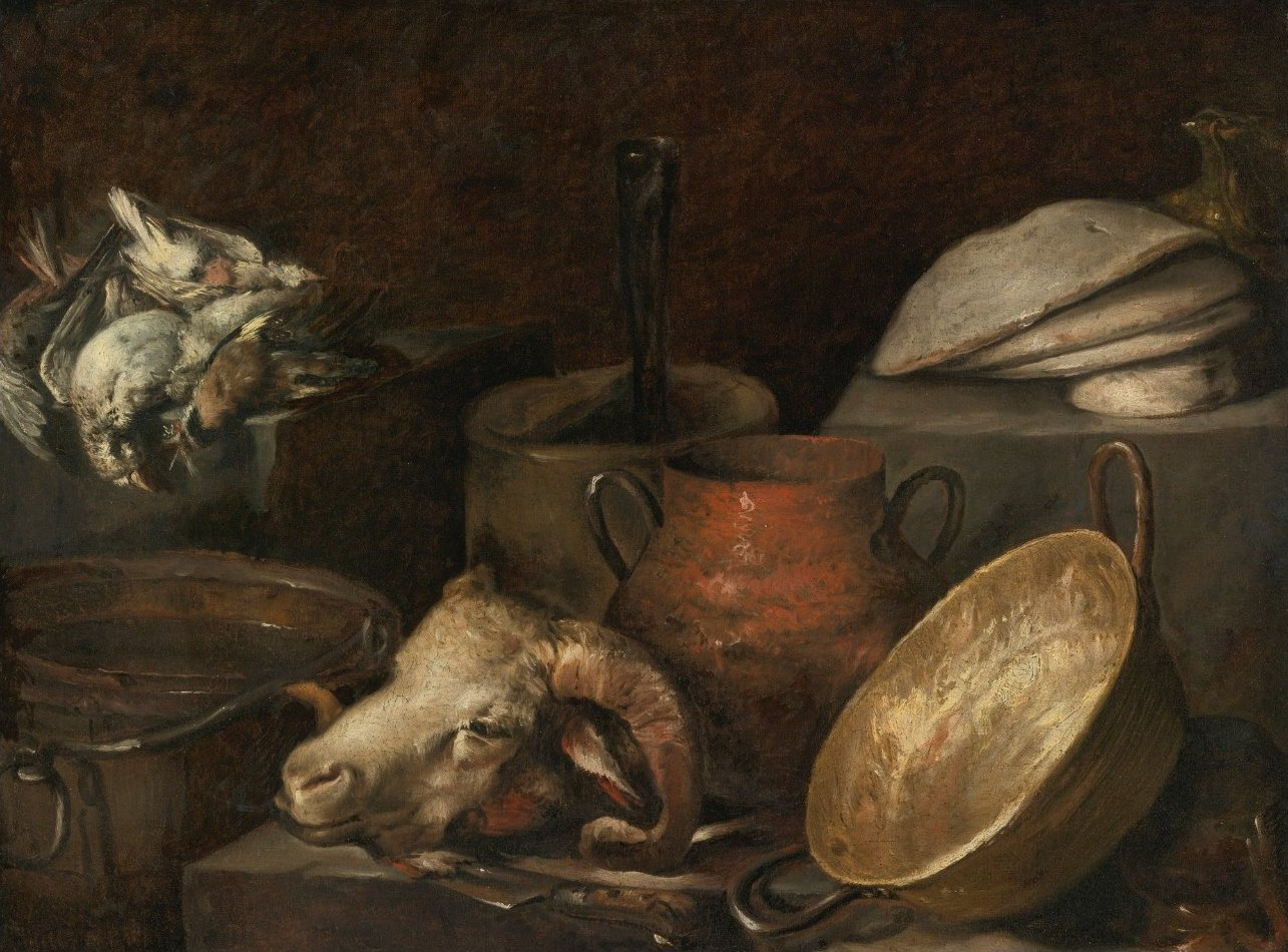 Still Life with a Ram's Head, Game, an Earthenware Jug, and Other Objects in a Kitchen Interior by Francisco Barranco, c. 1640-1650, oil on canvas, 67.9 by 90.2 cm.